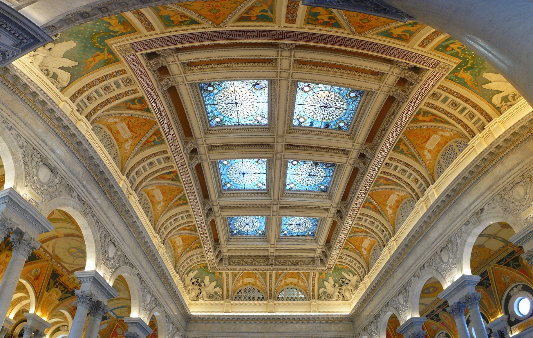 Great Hall, Library of Congress, Washington DC